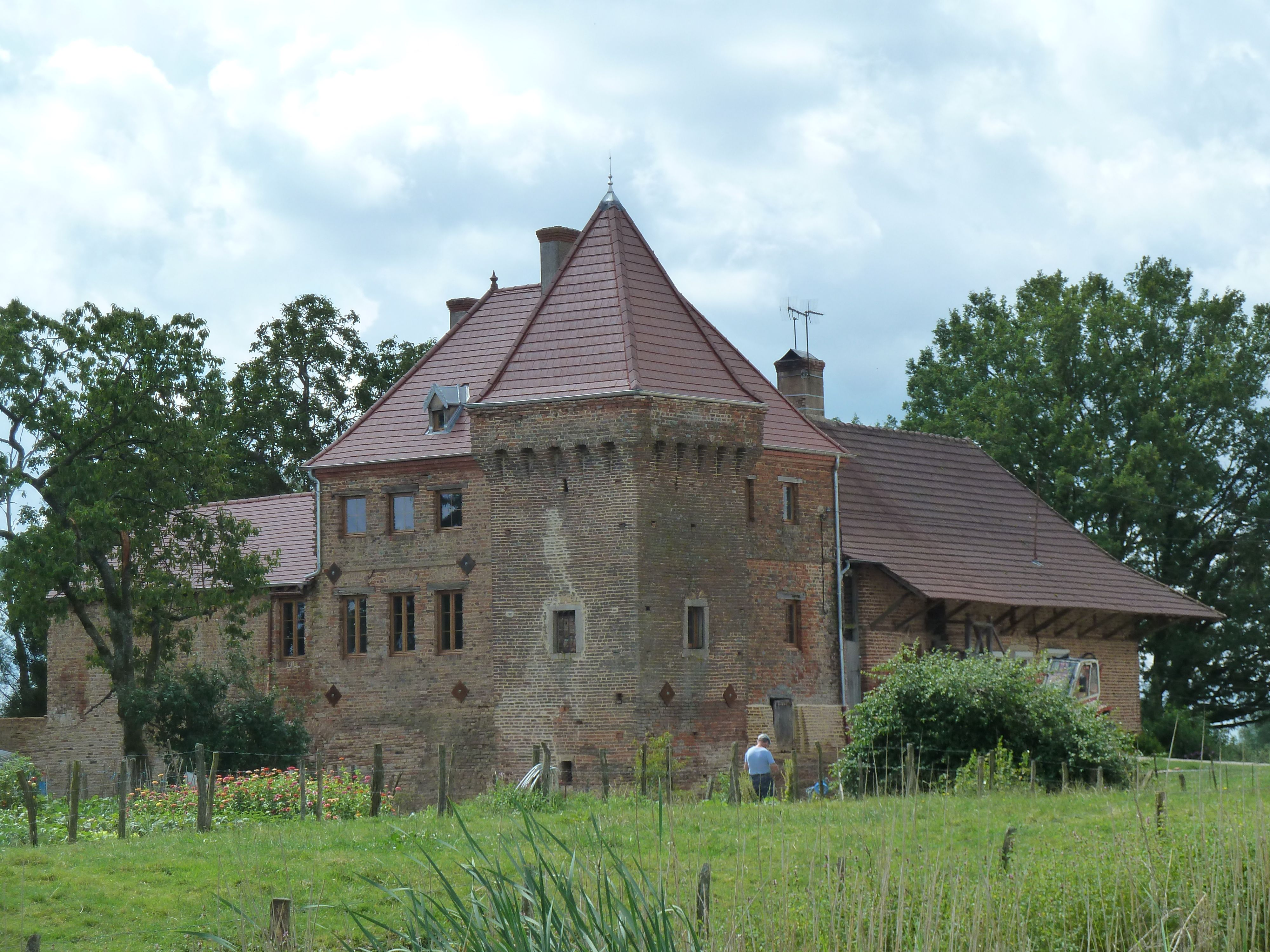 Durtal Castel in Montpont-en-Bresse, Burgundy, France